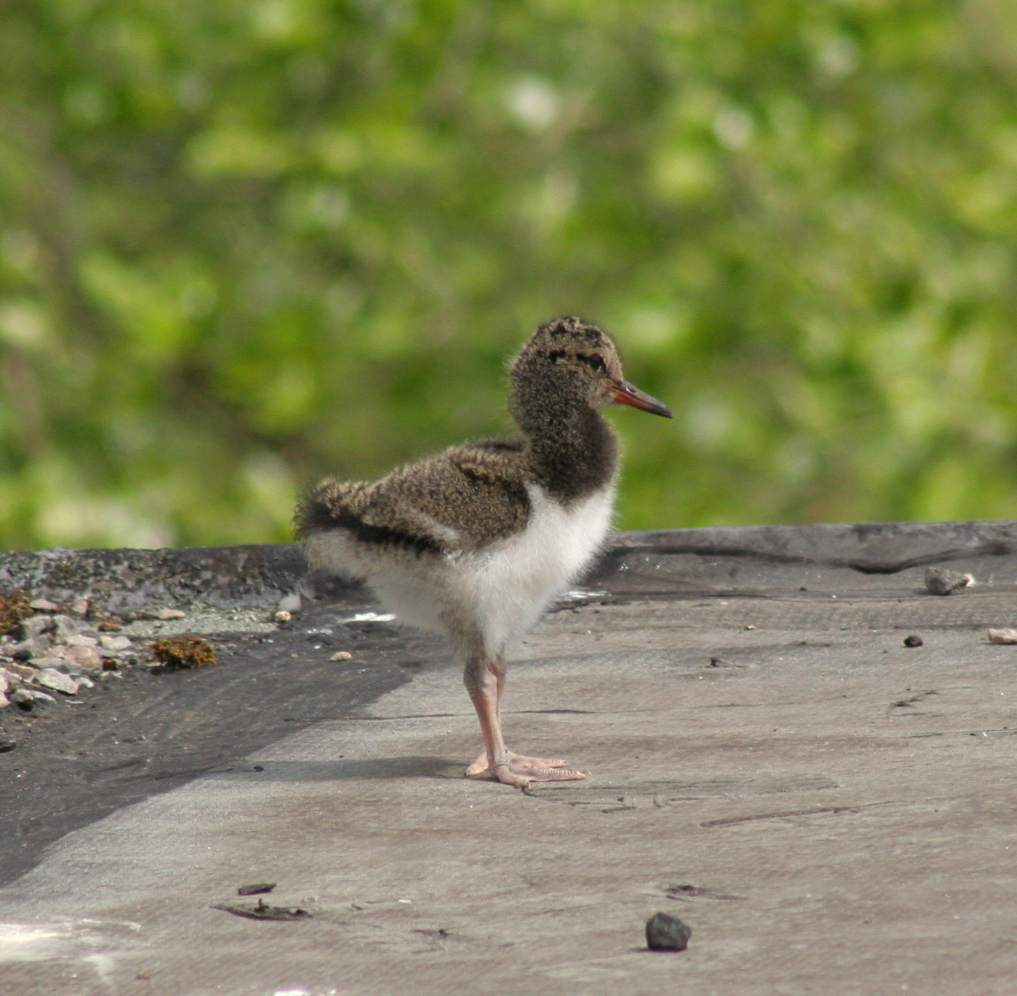 A chick Eurasian Oystercatcher (also known as the Common Pied Oystercatcher) on the roof of Royal Golf Hotel, Dornoch, Scotland.